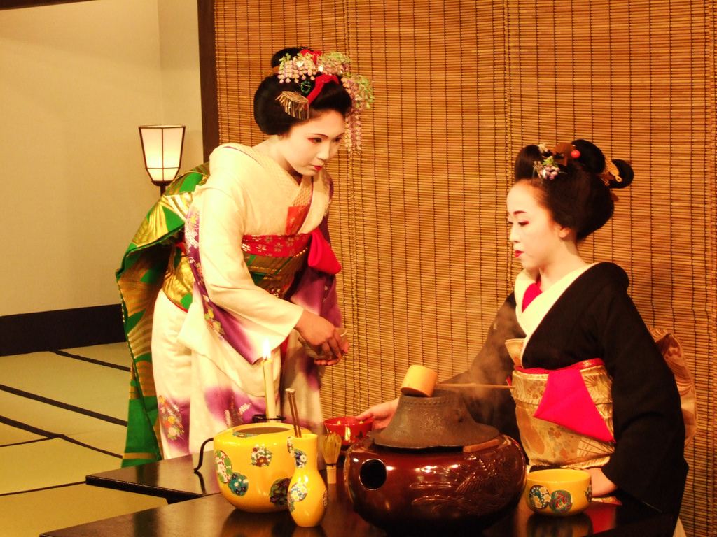 Tea ceremony before Miyako Odori. Geiko Koai wearing kyofuu shimada hairstyle and a maiko.